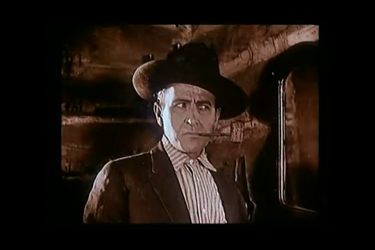 Sam de Grasse in Heart o' the Hills (1919), a film by Sidney Franklin